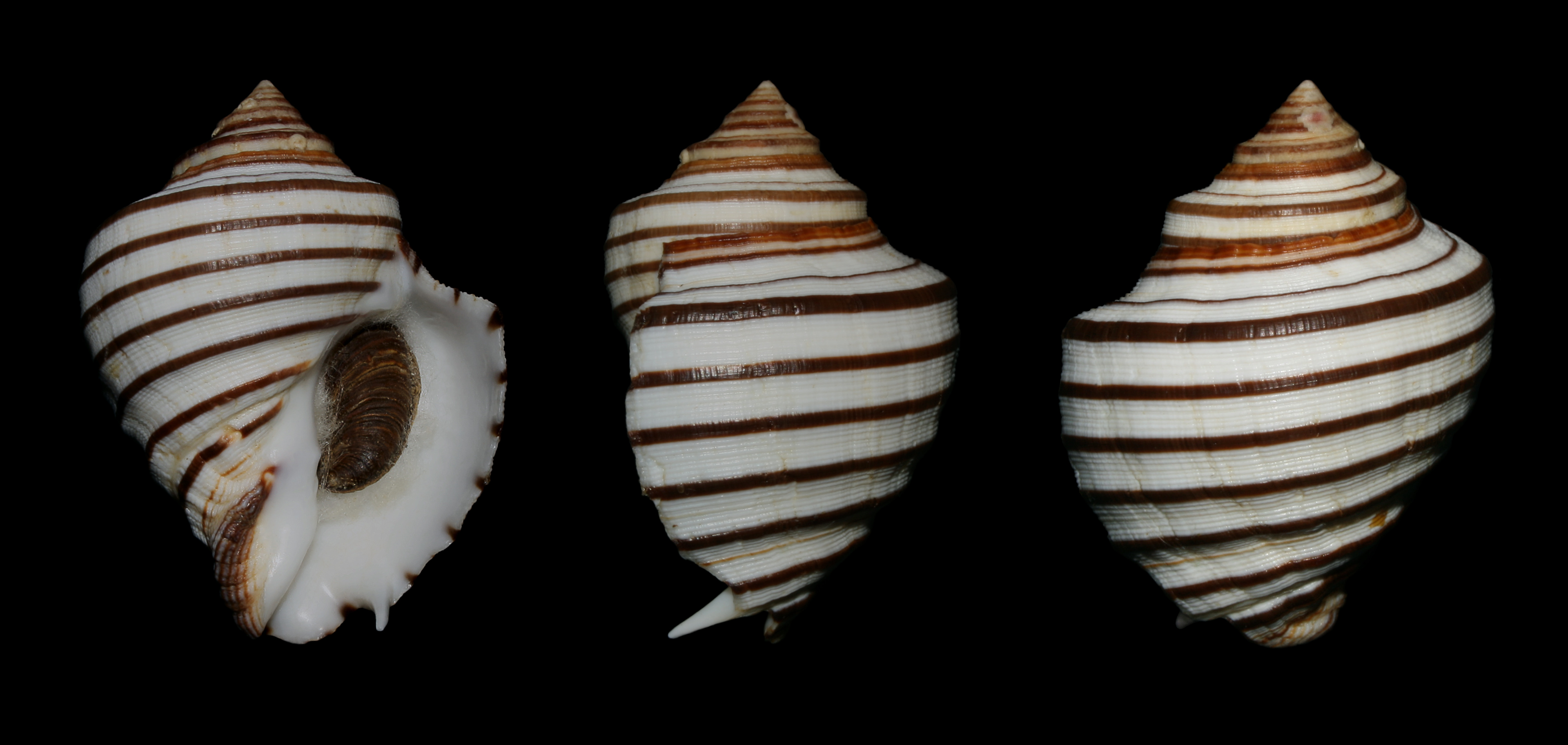 Opeatostoma pseudodon Burrow, 1815. Pedro Gonzalez Island, Panama, caught October 1975. 39 mm.